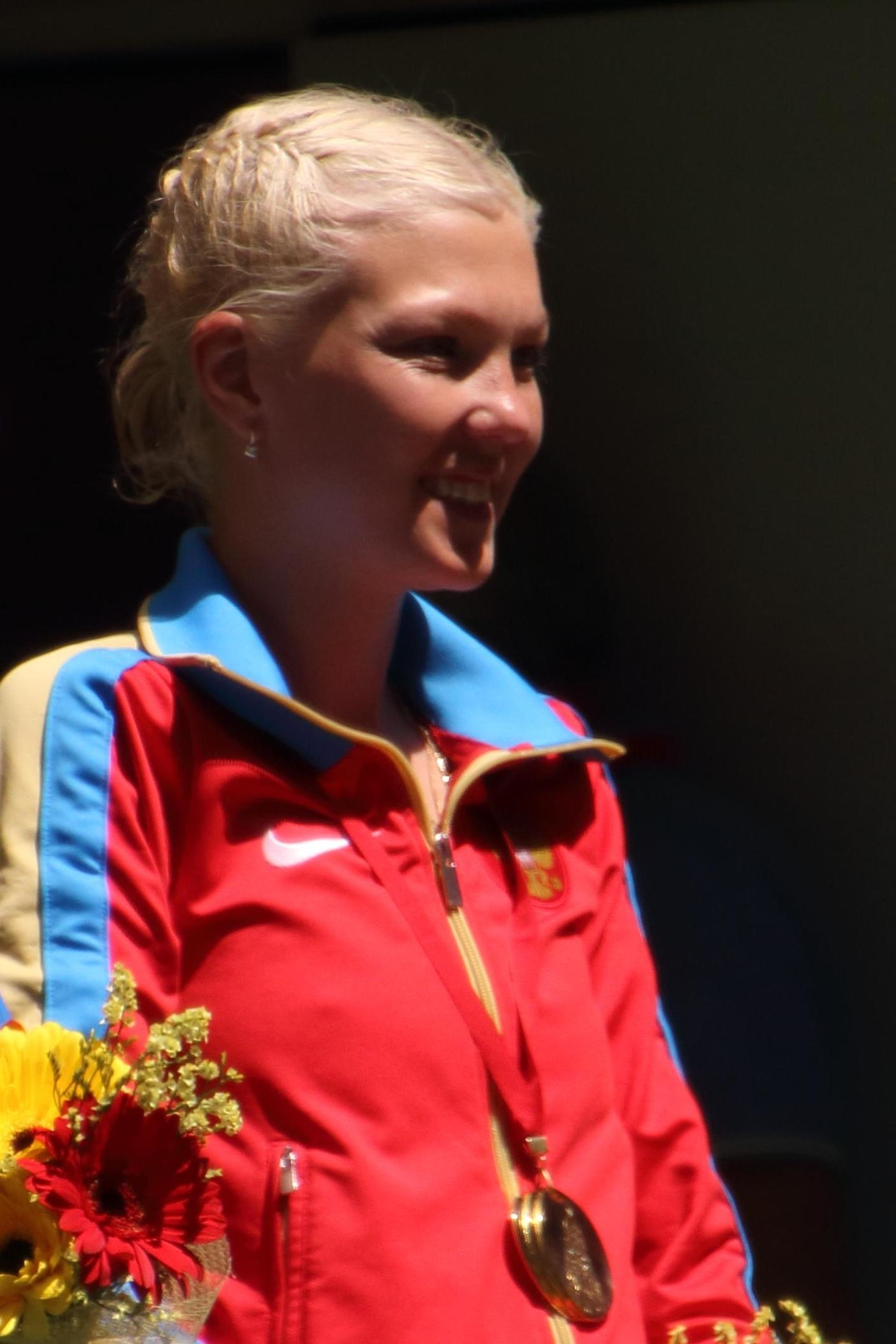 Elmira Alembekova, russian race walker, in the European Cup Race Walking 2015 (Murcia, Spain).